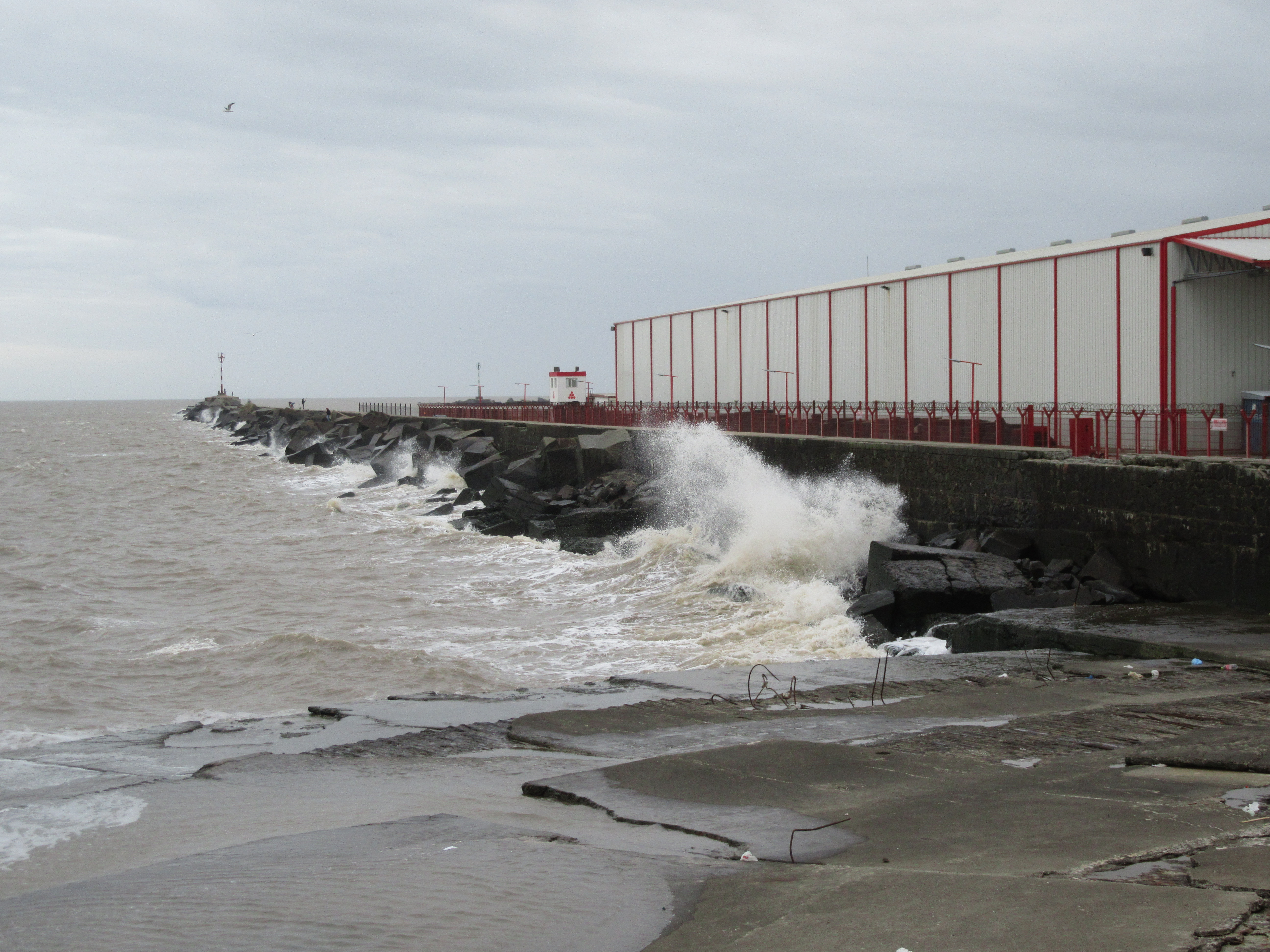 Montevideo